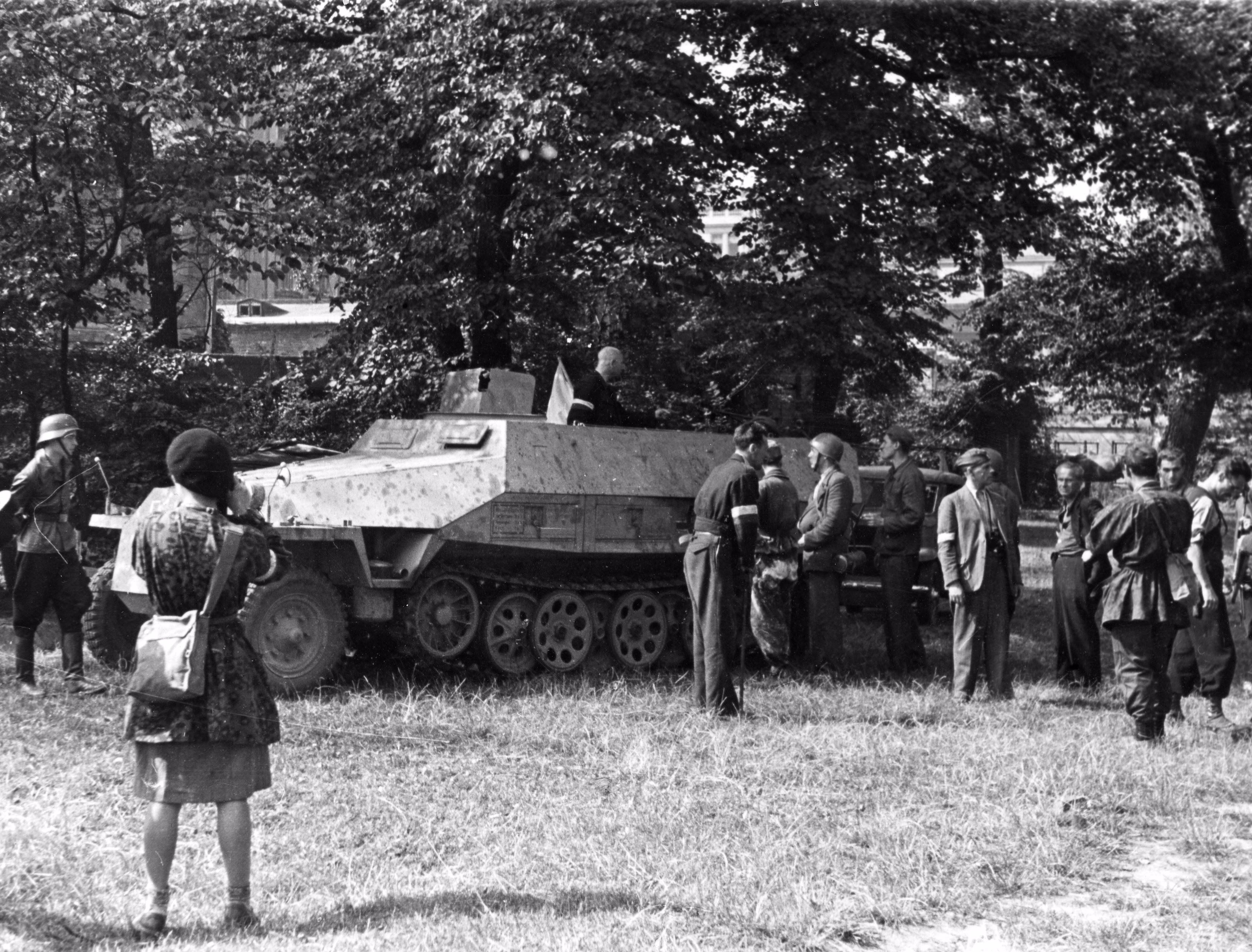 Warsaw Uprising: German armored fighting vehicle SdKfz 251 captured by the Polish insurgents, from 8-th "Krybar" Regiment, on Na Skarpie Boulevard on August 14, 1944 from 5th SS 'Viking' division. This picture taken in Okólnik gardens. Standing first from the right Capitan Cyprian Odorkiewicz "Krybar" commander of "Krybar" Regiment. To the left insurgent with polish flag on his sleeve is Wacław Jastrzębowski "Aspira". In the front (backward) reporters and film crew of insurgent press.